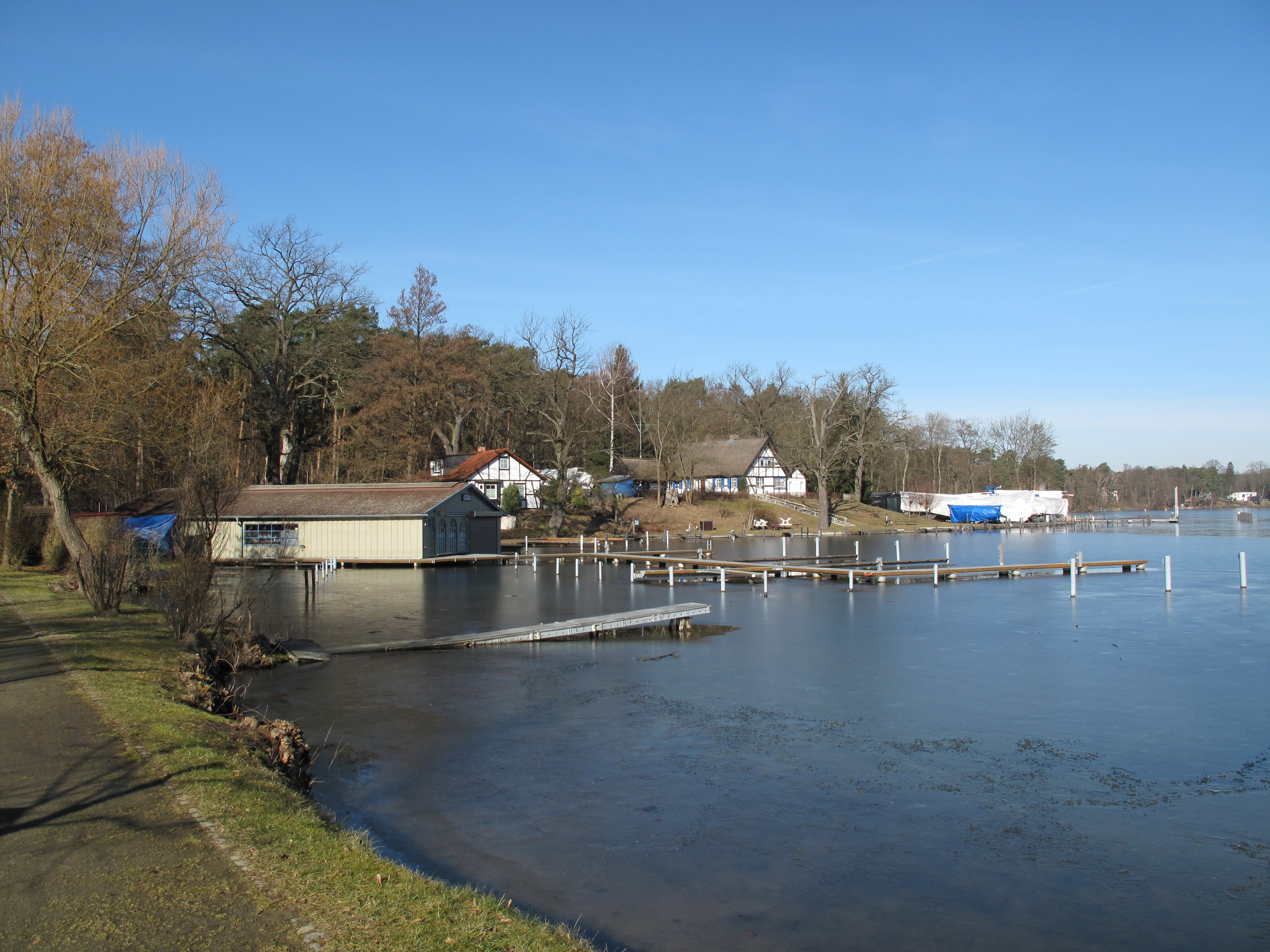 Yachtclub „Seglergemeinschaft Scharmützelsee e. V. Bad Saarow“ (SGS), Regattastr. 1, in „Dorf Saarow“, part of Bad Saarow in the District Oder-Spree, Brandenburg, Germany. The listed club house was built around 1777/80 and was part of the manor Saarow (today: Eibenhof).